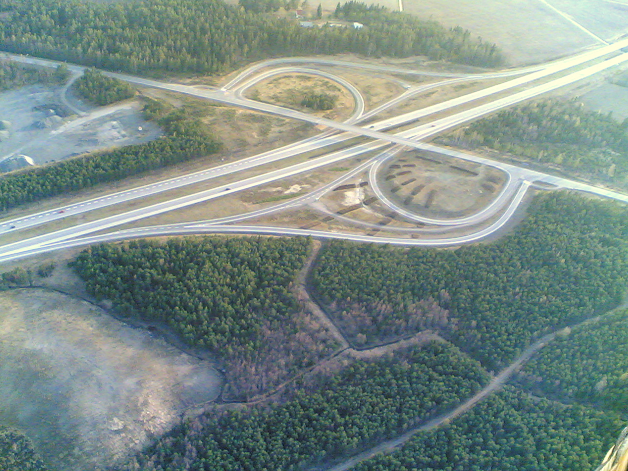 National roads 3 (E12) and 130 in Valkeakoski from air